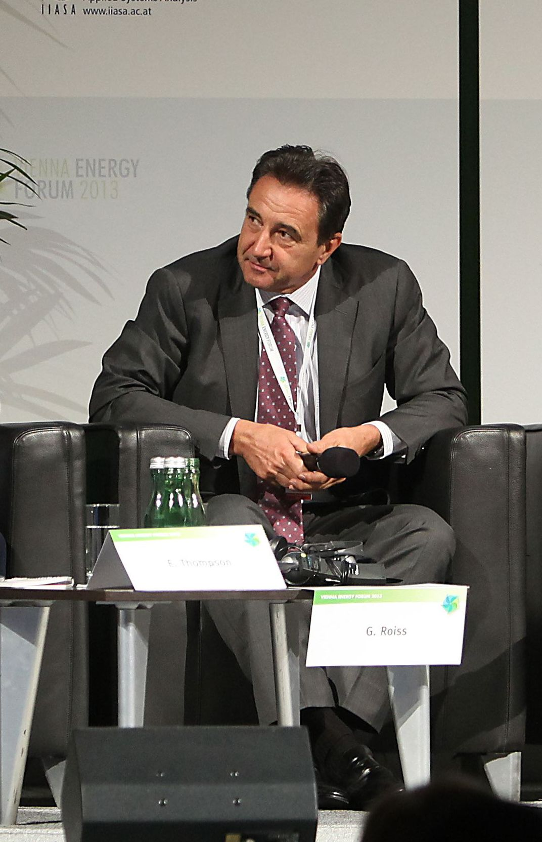 Panel 1: energy in the post-2015 agenda. Halil Y. Yigitgüden, Elizabeth Thompson, Gerhard Roiss, Rachel Kyte, Jose Goldemberg. VEF 2013 VIENNA , 28 May 2013 Foto: UNIDO/ Gerhard Fally